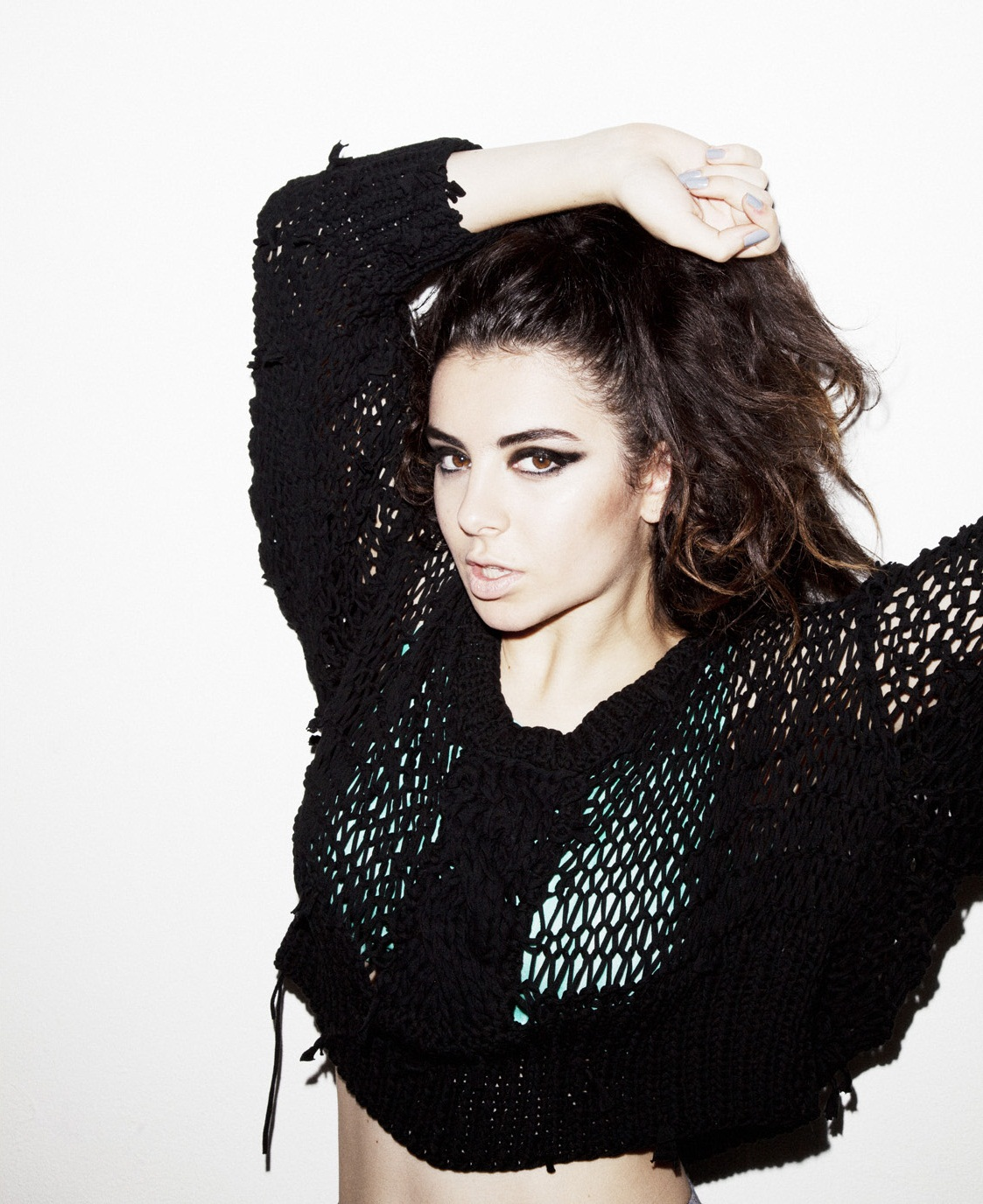 An image of British singer Charli XCX